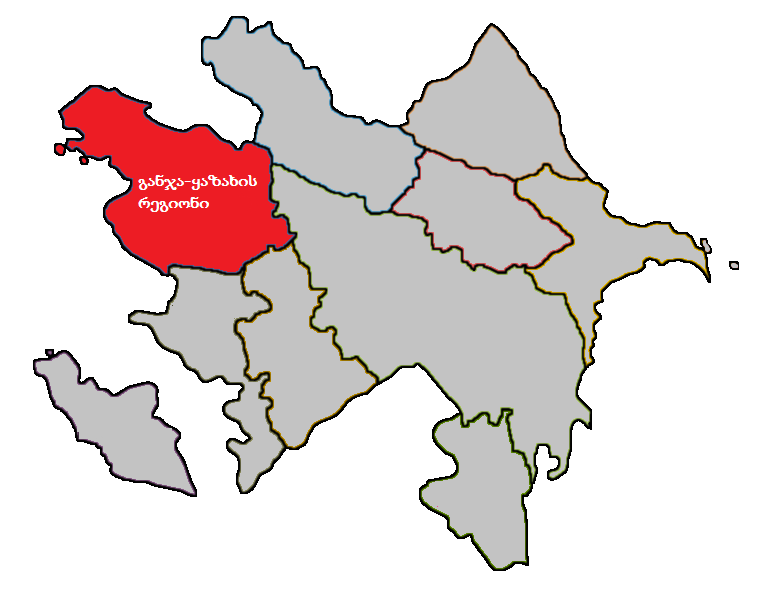 Ganja-Gazakh region.